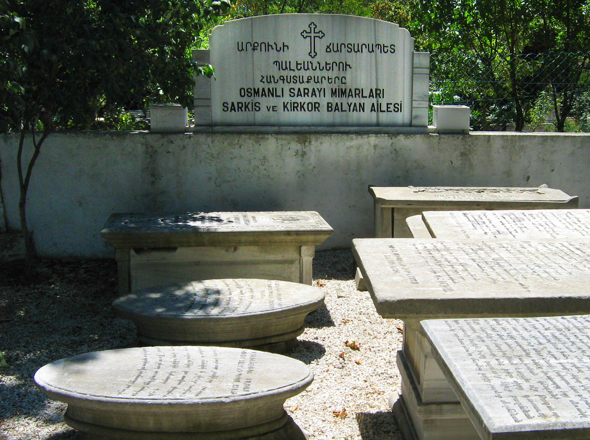 graves of the Balyan family, Armenian cemetery on Nuh Kuyusu Caddesi, Bağlarbaşı, Üsküdar, Istanbul; Sarkis and Kirkor Balyan were Ottoman architects